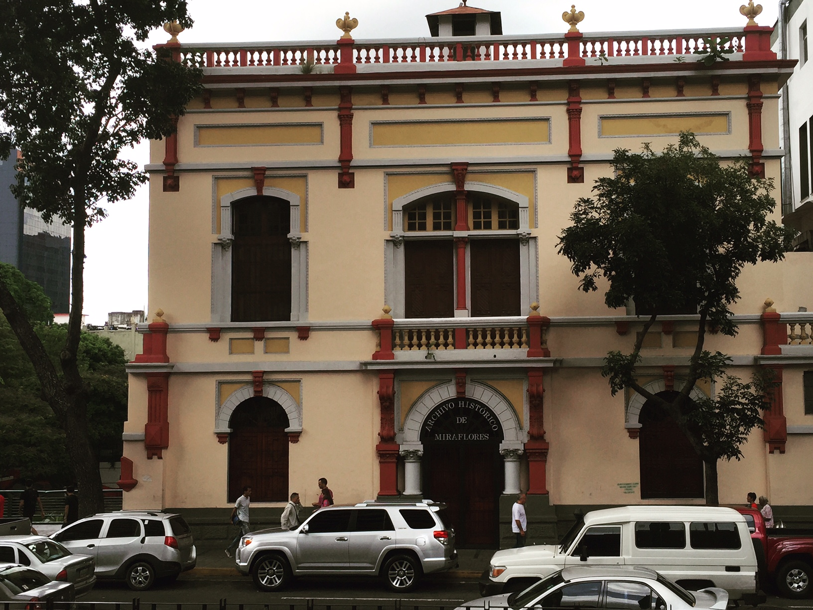 El Archivo Histórico de Miraflores entre las esquinas de Santa Capilla y Carmelitas, Caracas.